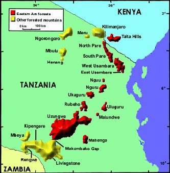 Eastern Arc Mountains